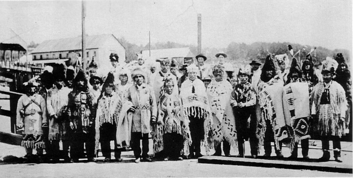 Skwxwu7mesh (Squamish) leaders on North Vancouver warf in 1906 to send Joe Capilano for his trip to England.